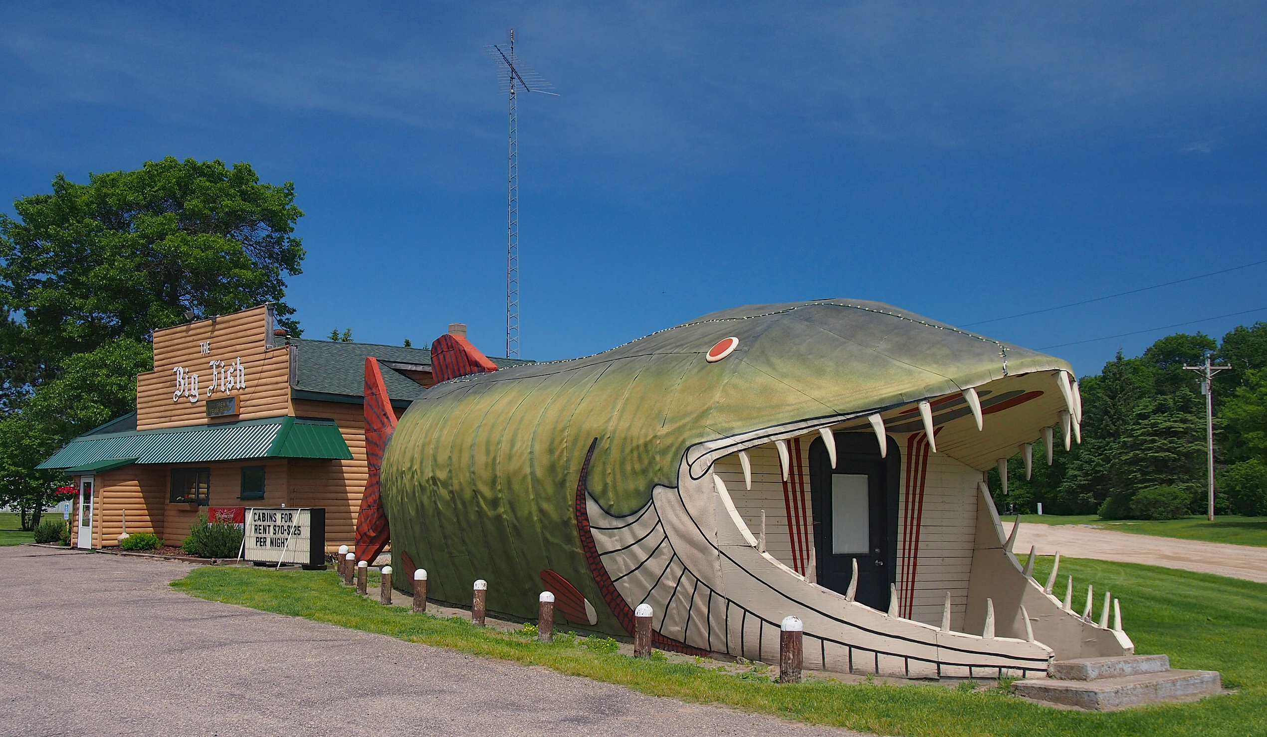 Big Fish Supper Club & Resort, 456 U.S. Route 2, North Cass, Minnesota, USA. Viewed from the southeast.